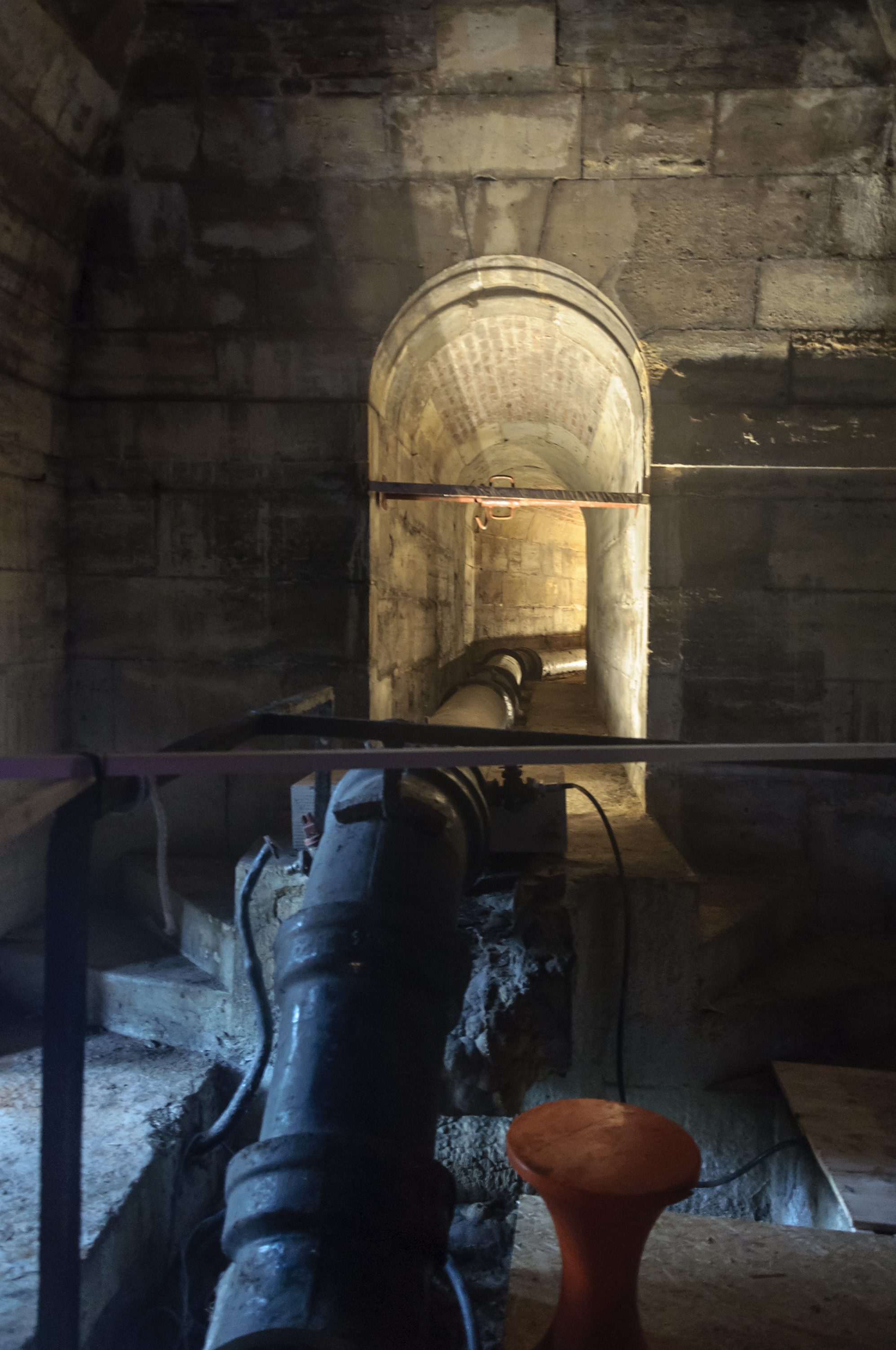 Inside the regard n. 13 of the Medici Aqueduct, opened to public for during the European Heritage Days 2013 (Arcueil, Val-de-Marne, France) .